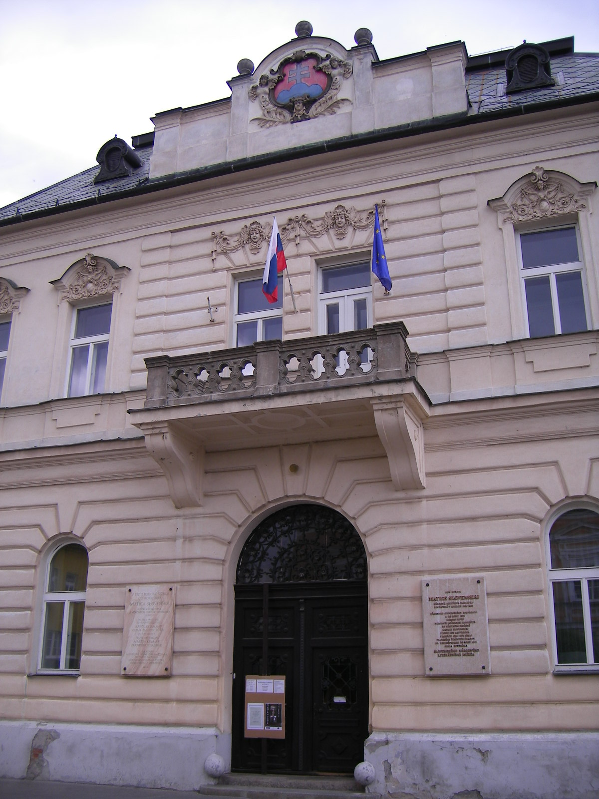 Martin - former Matica slovenská headquarters